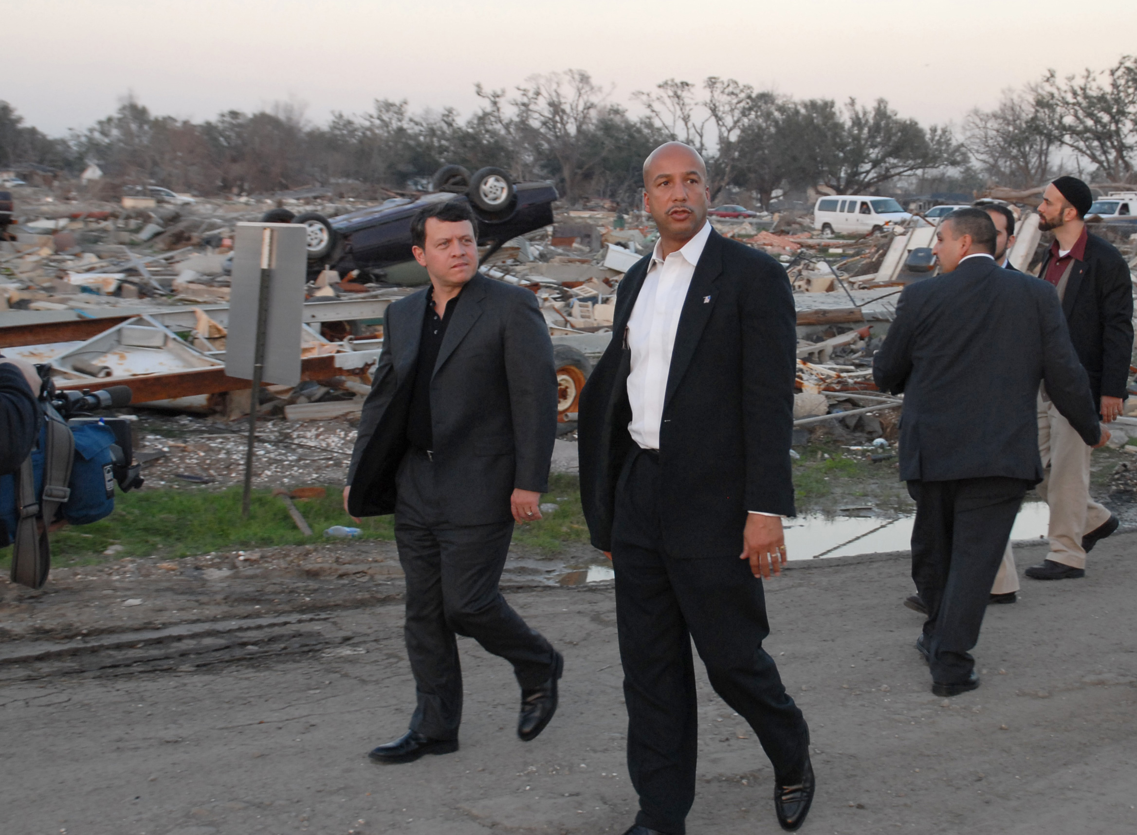 New Orleans, LA, 02-3-06 -- Mayor Ray Nagin takes King Abdullah II Bin Al-Hussein of Jordan on a walking tour of the 9th Ward neighborhood. The King of Jordan is taking the foot tour of the 9th Ward to see what happened and to see how we respond and handle disasters and what lessons can be learned and applied to disasters in his country. MARVIN NAUMAN/FEMA photo